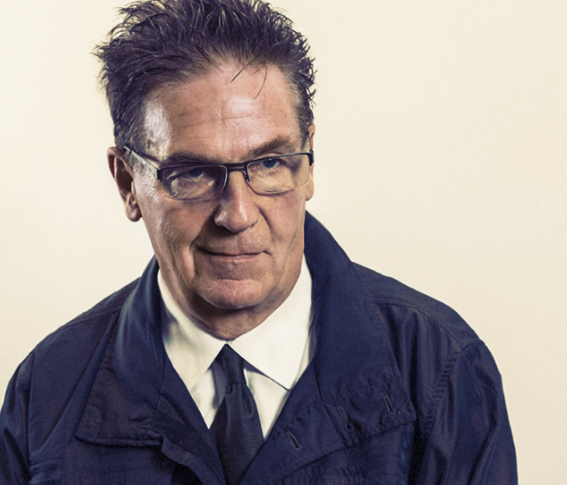 Photo taken in 2016 at a gathering at ELISAVA | Barcelona School of Design and Engineering